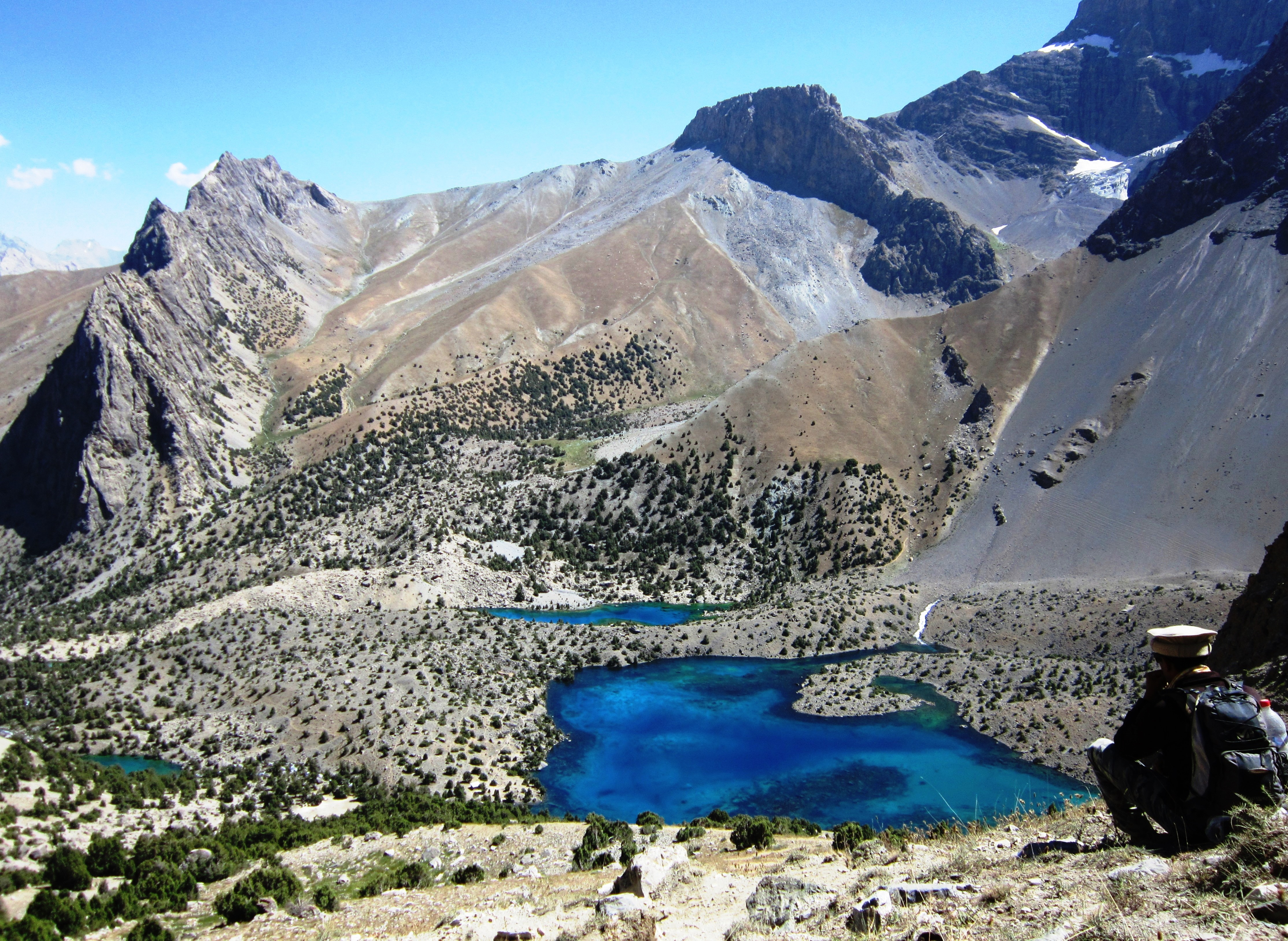 Lake in the Fan Mountains. Tajikistan Тоҷикӣ: Кӯл дар кӯҳи Фон